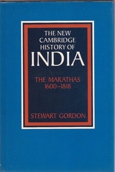 The cover of a book by Stewart N. Gordon: a new comprehensive history of one of the most colorful and least understood kingdoms in India: The Maratha polity.